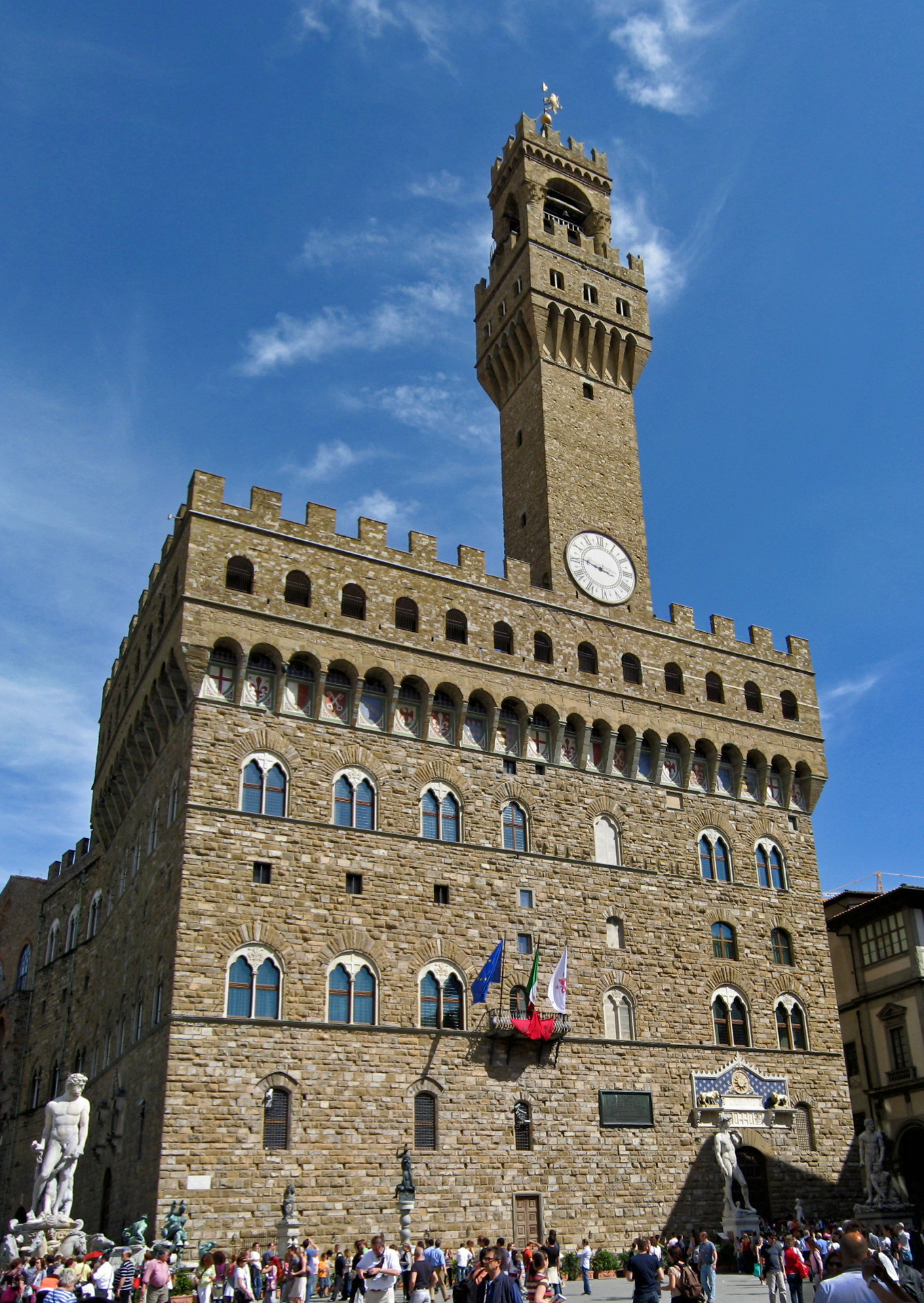 Palazzo Vecchio, Firenze.